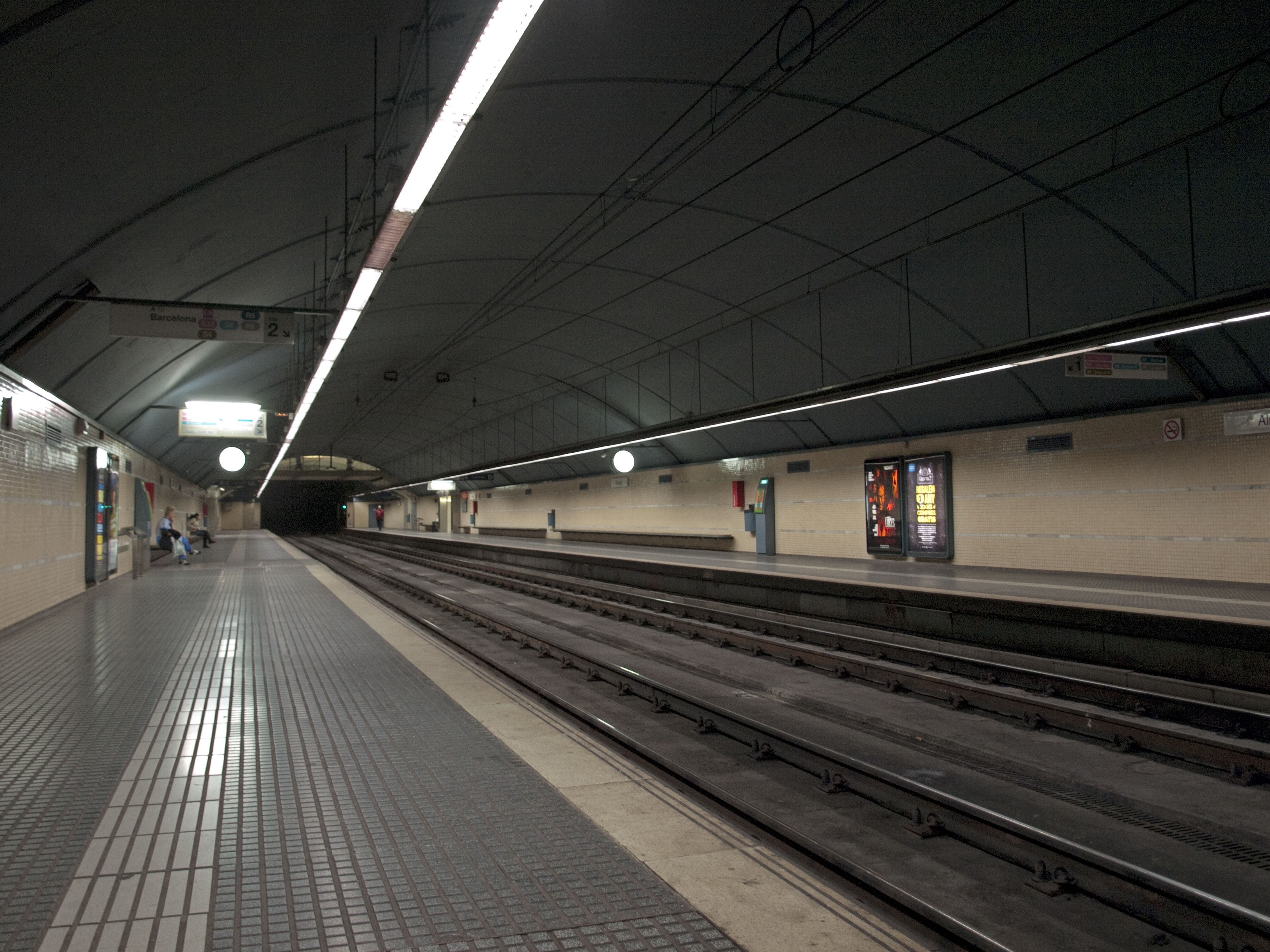 Almeda Metro Station, Barcelona. Photo taken from the platform in the direction of Espana.